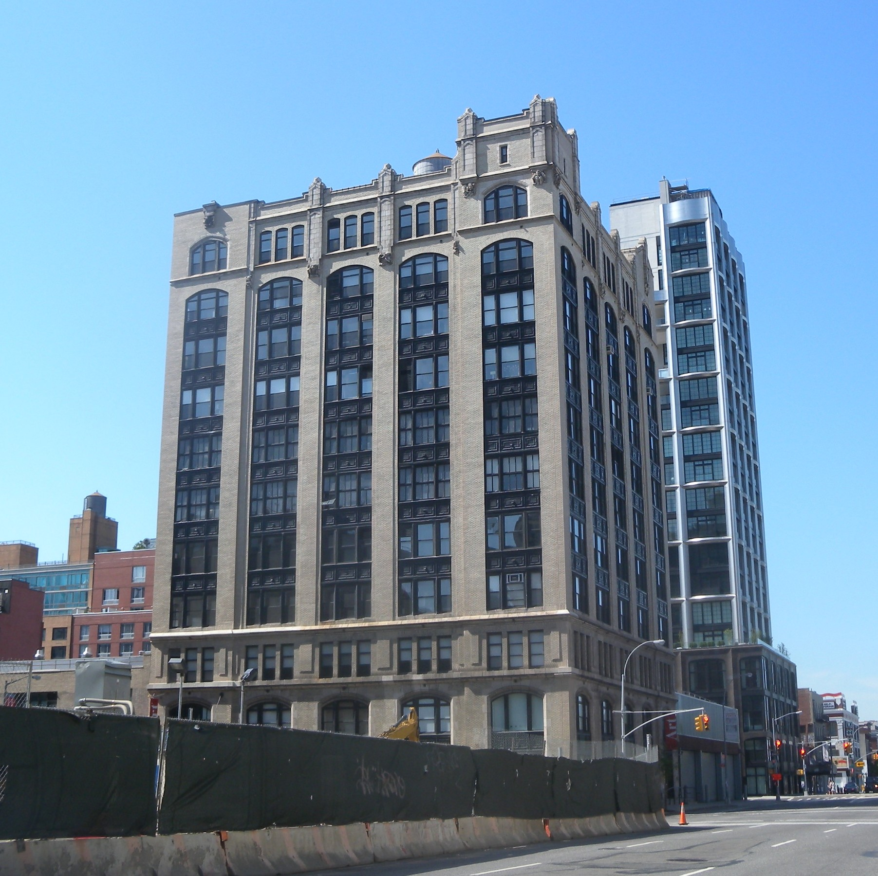 Looking south on a sunny morning from 26th Street at 210 11th Avenue, home to several art galleries.